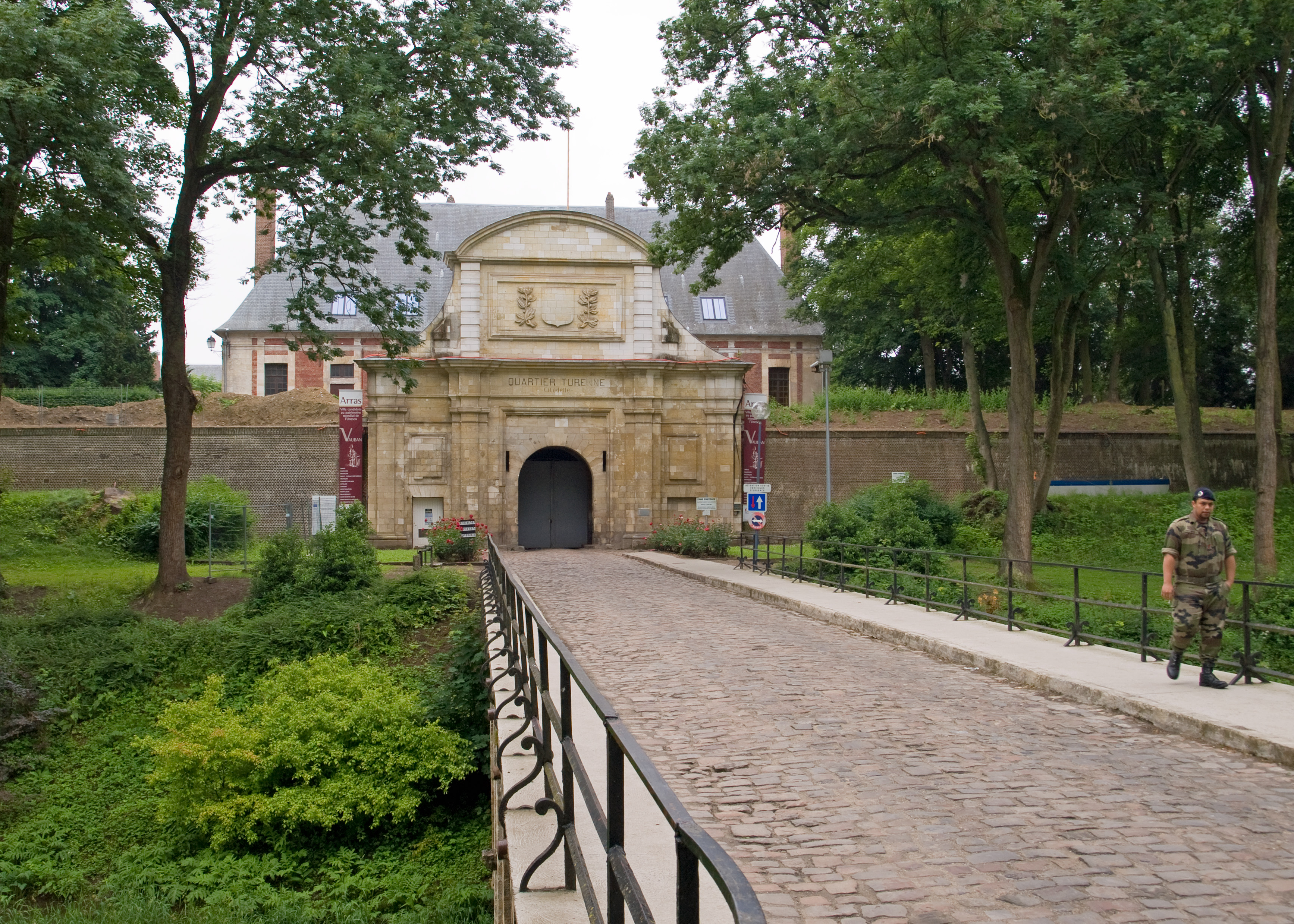 This is a miltary fort on the outskirtsof Arras.